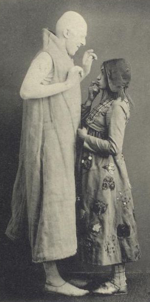 Apollo Gorin (as Sugar) & Alisa Koonen (Mytyl) in The Blue Bird (Maurice Maeterlinck) of Moscow Art Theatre (1908).